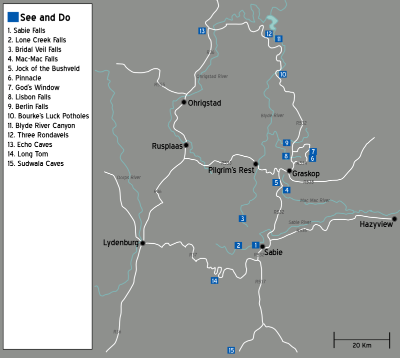 Map of Mpumalanga Escarpment, South Africa. Created with inkscape, postprocessing in the GIMP.